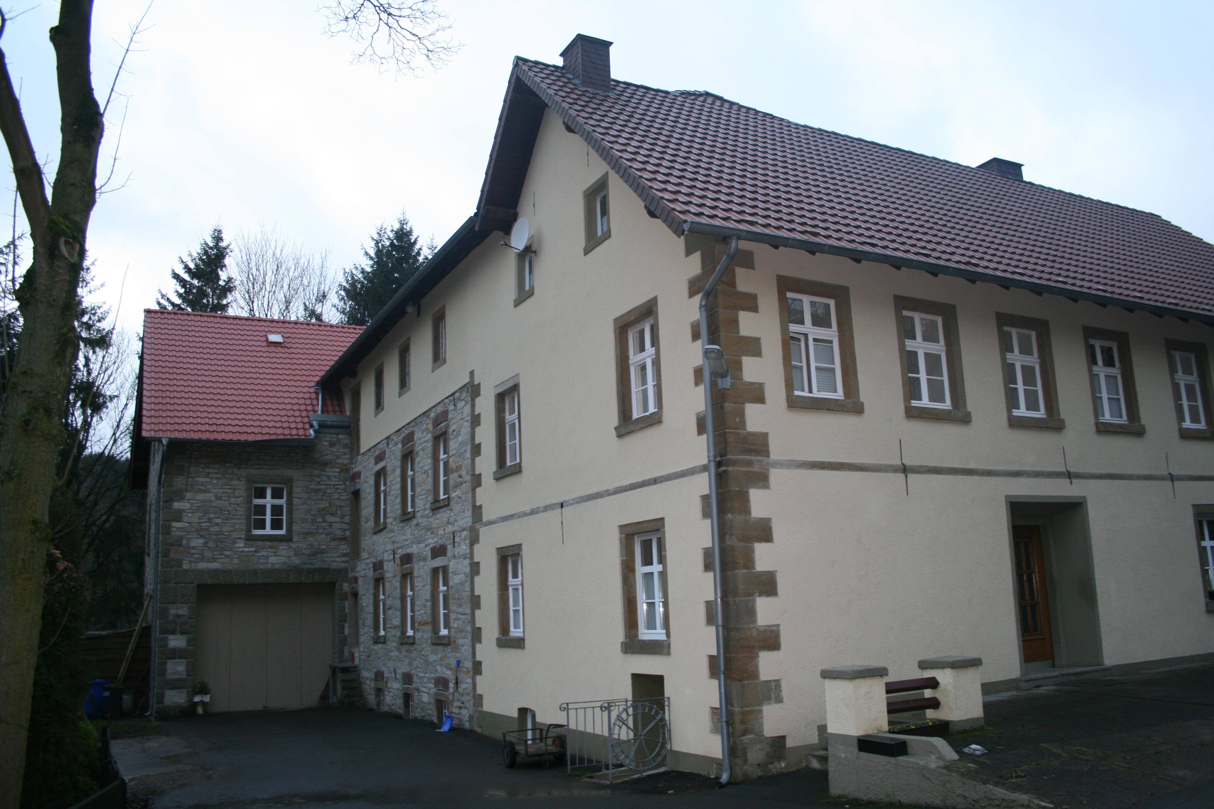 Weiner Mill